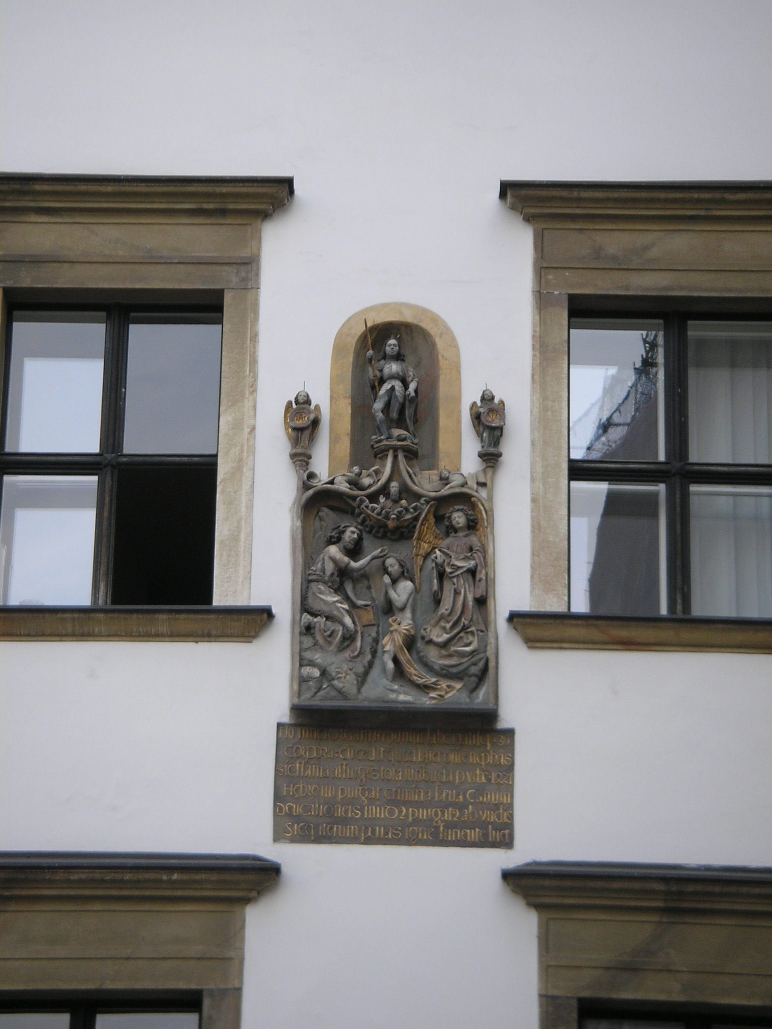 Image of an anti-semitic plaque at the "Haus am Jordan", which describes the first expulsion of the Viennese Jewish community during the Middle Age.